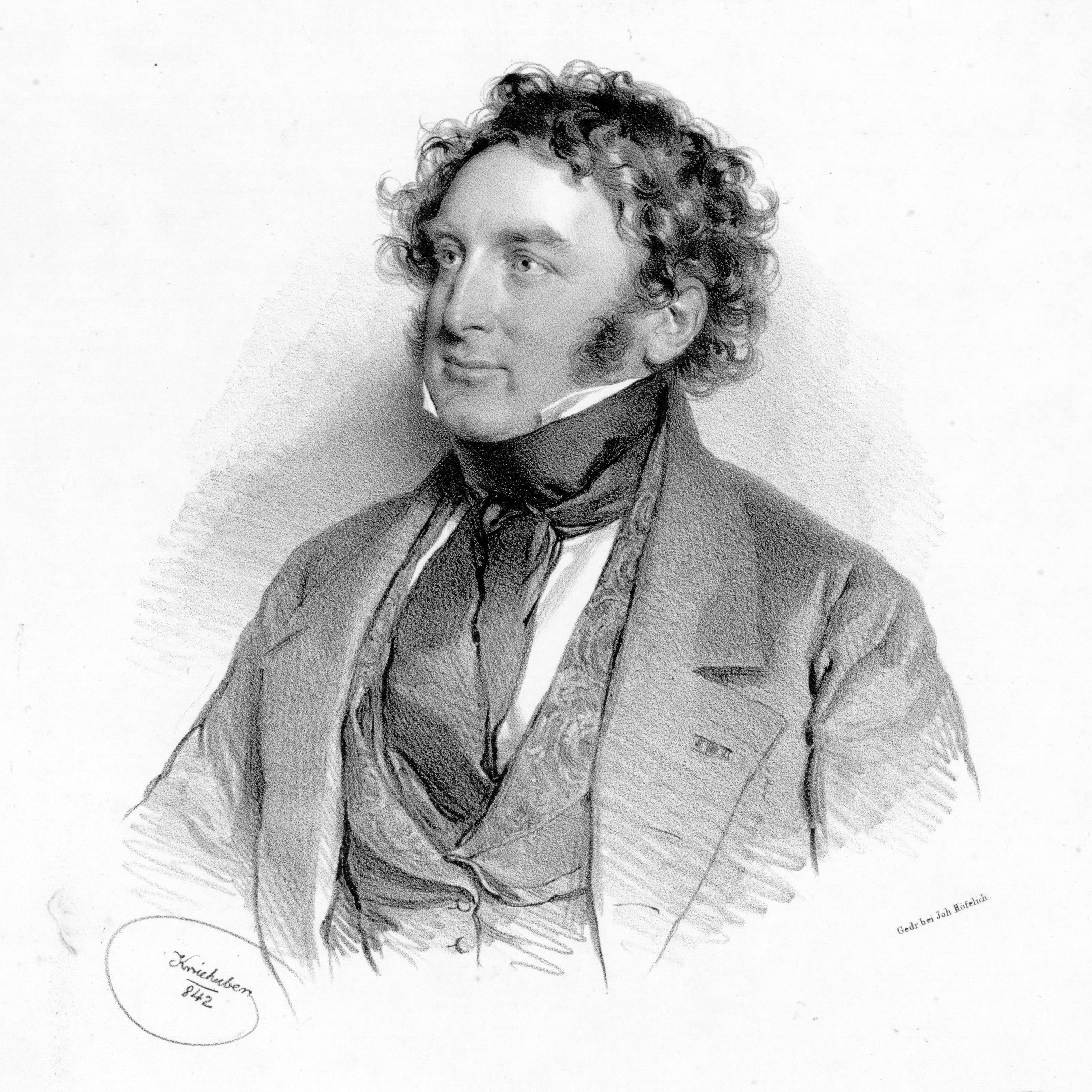 French composer and harpist Nicolas Charles Bochsa August 9, 1789, Montmédy (Meuse)- January 6, 1856 in Sydney, 1842. Nicolas BOCHSA was one of the most celebrated harpists of the XIXth century. His life is a series of adventures of all kinds (including judicial!. The first biography of Bochsa was published in 2003 (in French) : Nicolas-Charles Bochsa, harpiste,compositeur,escroc (NC Bochsa, harpist,composer, crook)by Michel Faul.( as well as another one (also in French) : "les tribulations mexicaines de Nicolas-Charles Bochsa, harpiste (the Mexican Adventures of N.Bochsa the harpist)also by Michel Faul